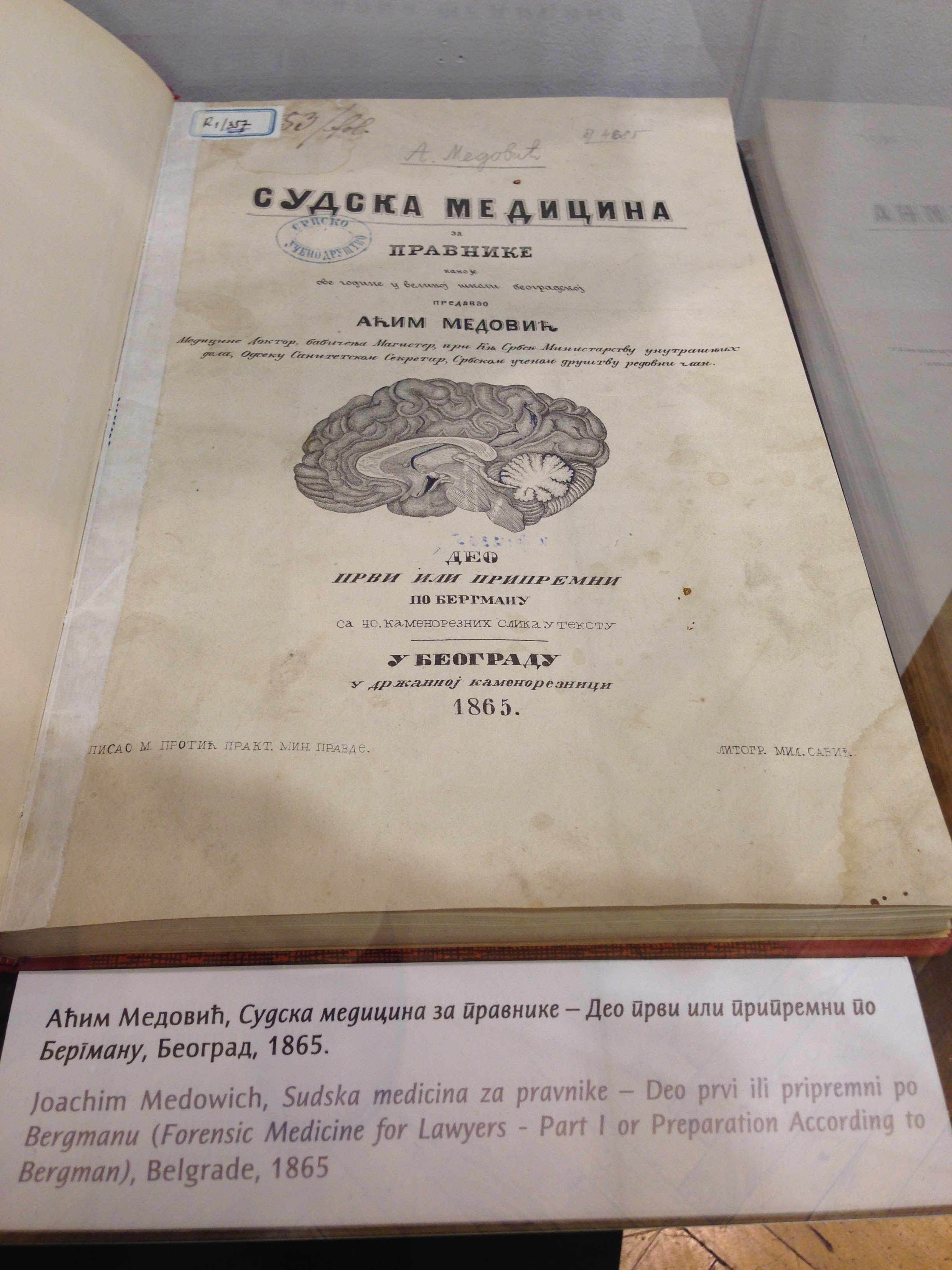 History of Serbian medicine: Joachim Medowich, Forensic Medicine for Lawyers - Part I, Preparation According to Bergman, Belgrad, 1865. Srpski (latinica): Aćim Medović, Sudska medicina za pravnike - Prvi deo ili pripremni po Bergmanu, Beograd 1865.